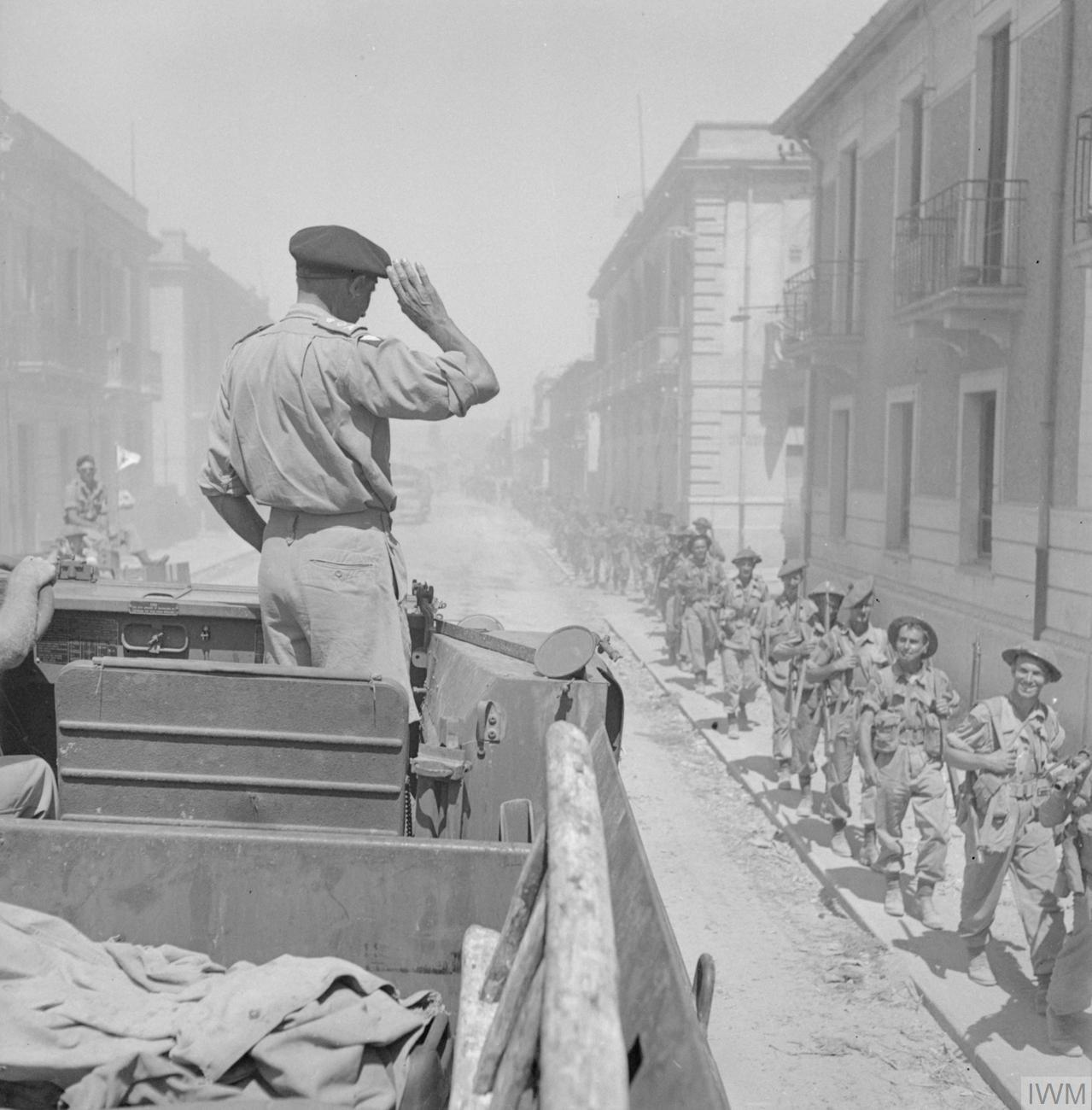 The British Army in Italy September 1943 General Montgomery salutes his troops from a DUKW in the streets of Reggio, 3 September 1943.